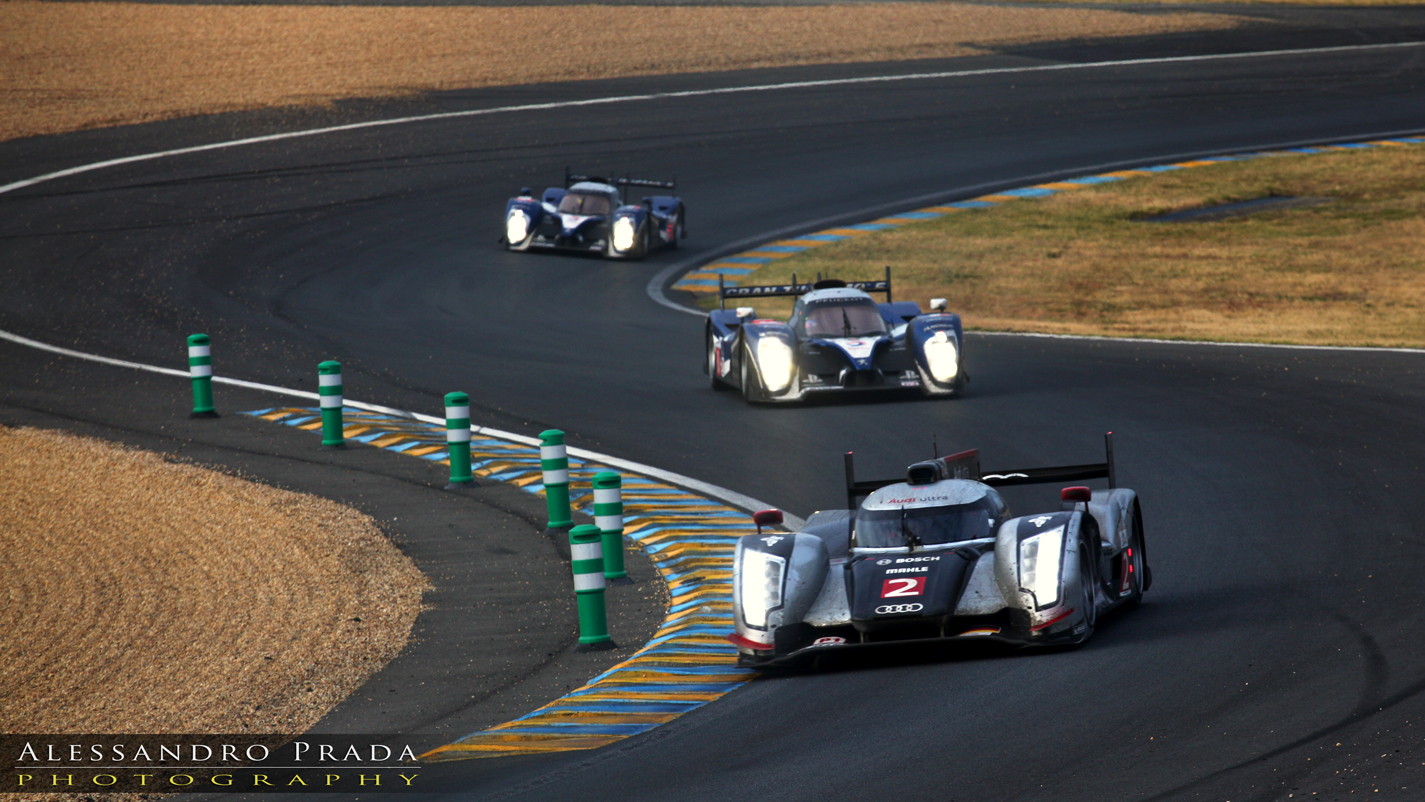 Canon 5D Mark II + 70-200 F4 200mm - 1/640s - F6.3 - 200 ISO